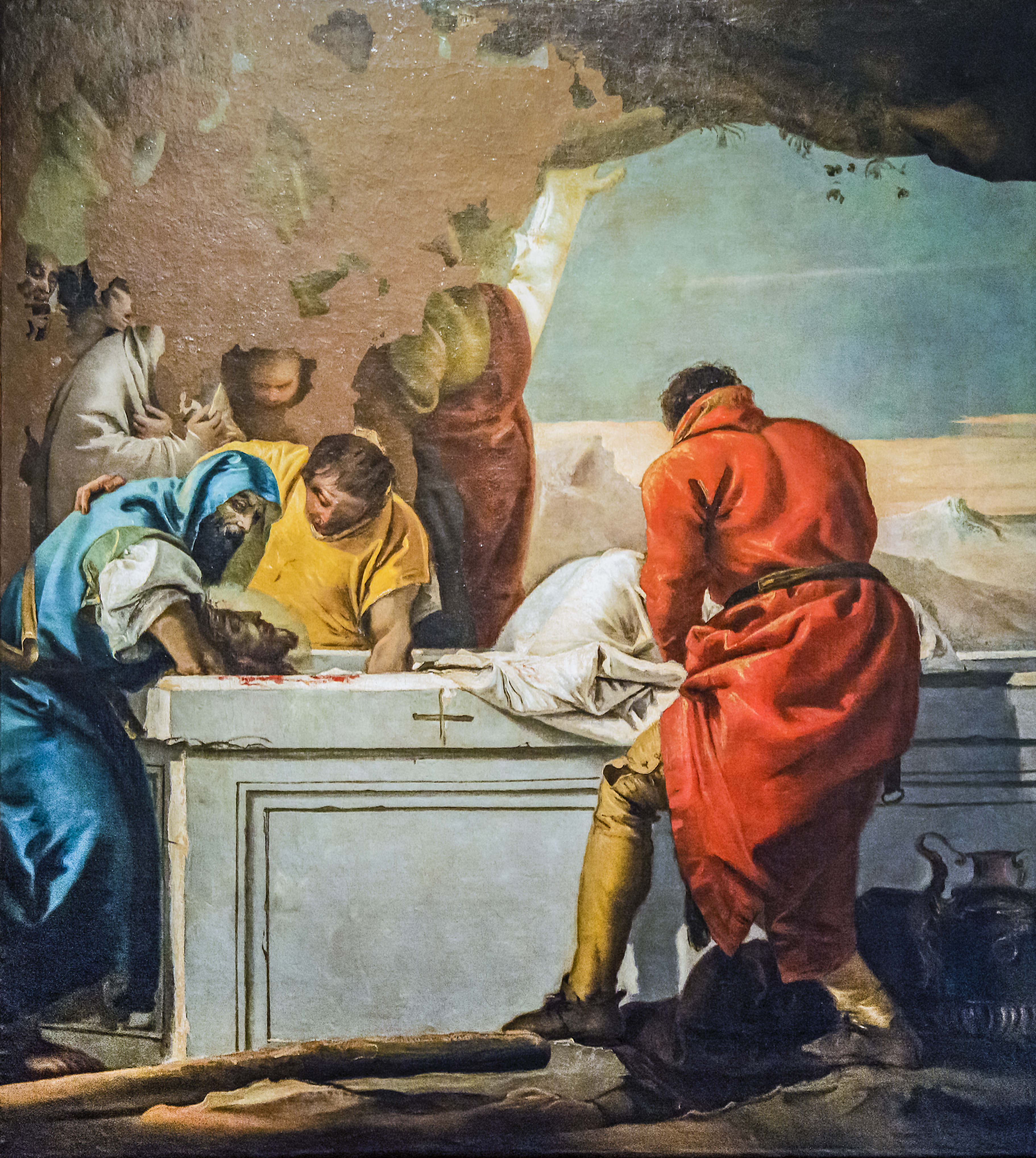 San Polo (church) - Oratory of the Crucifix - VIA CRUCIS XIV - Entombment of Christ by Giandomenico Tiepolo. Oil on canvas (1745 -1749).